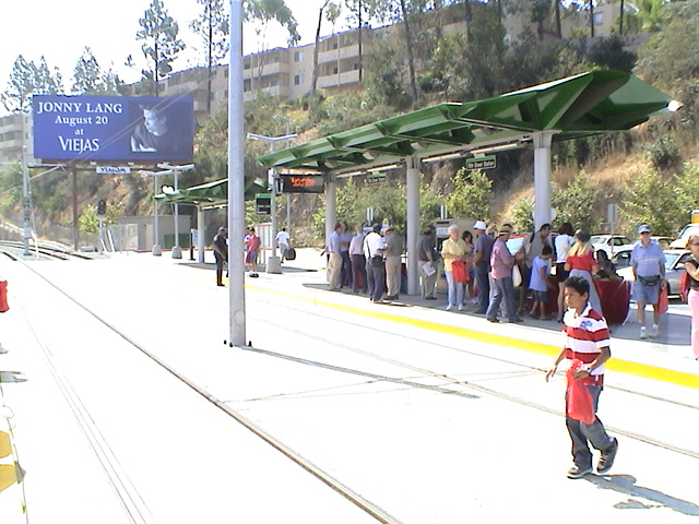 70ST Station